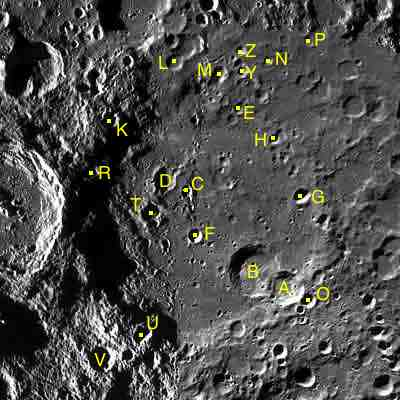 Bailly lettered craters